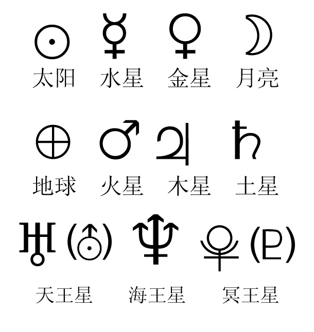 Glyphs for heavenly bodies in astrology, in Chinese